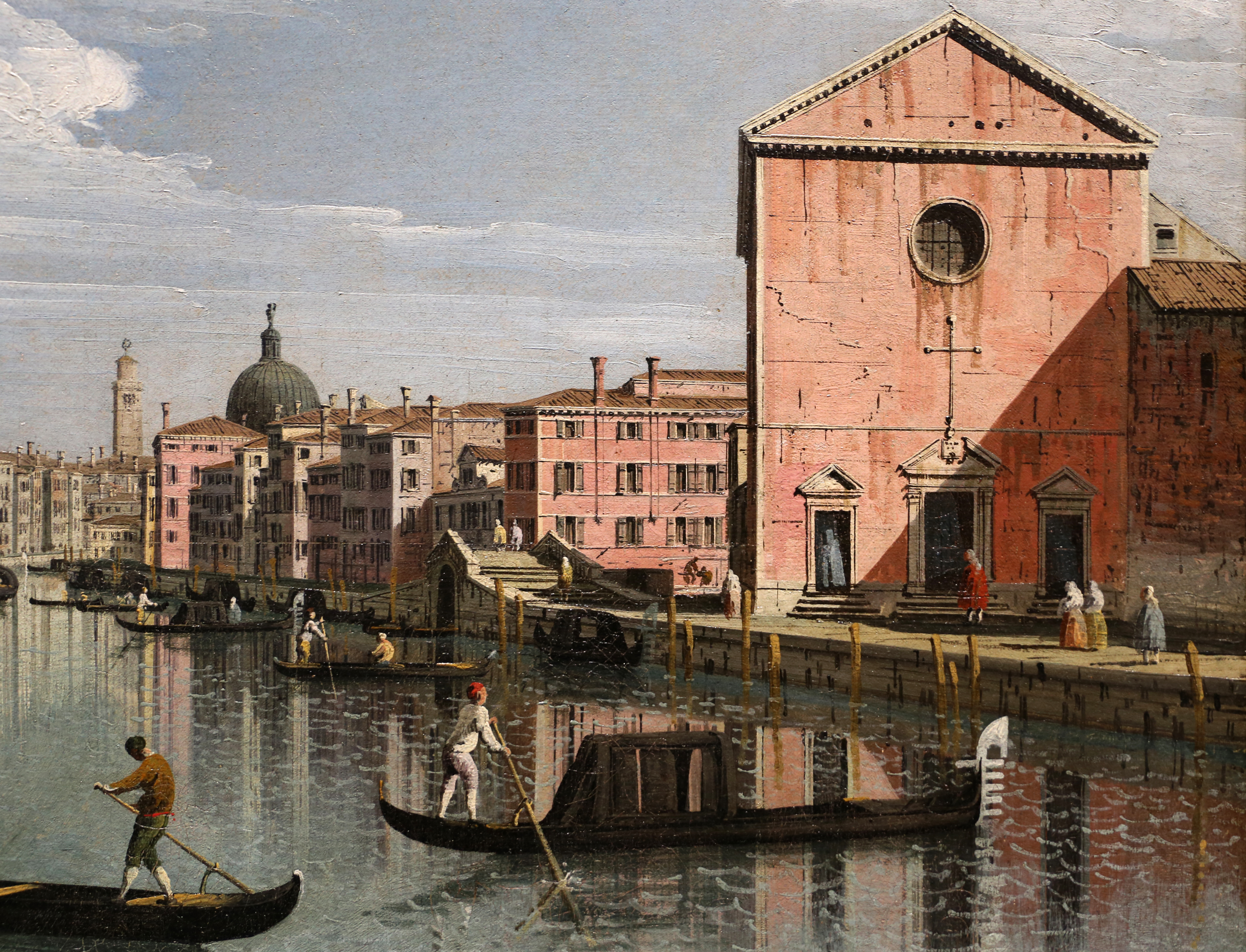 Italian Rococo paintings in the National Gallery, London